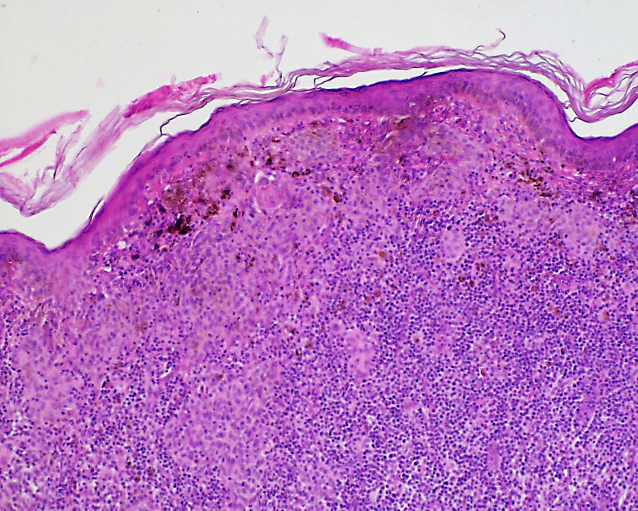 Halo naevus (Sutton)